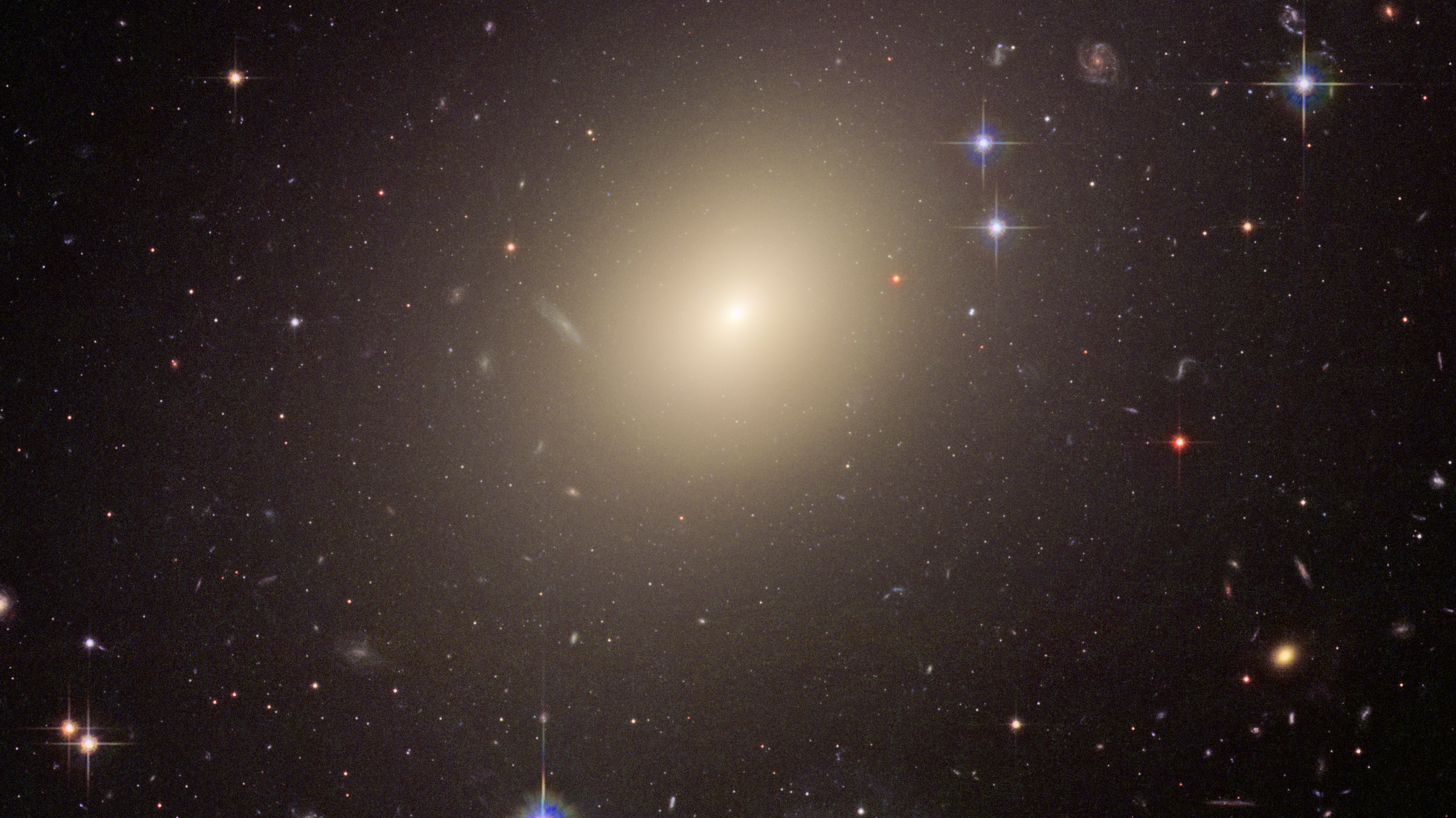 Hubble Illuminates Cluster of Diverse Galaxies (Abell S0740) - This image from NASA's Hubble Space Telescope shows the diverse collection of galaxies in the cluster Abell S0740 that is over 450 million light-years away in the direction of the constellation Centaurus. The giant elliptical ESO 325-G004 looms large at the cluster's center. The galaxy is as massive as 100 billion of our suns. Hubble resolves thousands of globular star clusters orbiting ESO 325-G004. Globular clusters are compact groups of hundreds of thousands of stars that are gravitationally bound together. At the galaxy's distance they appear as pinpoints of light contained within the diffuse halo. Other fuzzy elliptical galaxies dot the image. Some have evidence of a disk or ring structure that gives them a bow-tie shape. Several spiral galaxies are also present. The starlight in these galaxies is mainly contained in a disk and follows along spiral arms. This image was created by combining Hubble science observations taken in January 2005 with Hubble Heritage observations taken a year later to form a 3-color composite. The filters that isolate blue, red and infrared light were used with the Advanced Camera for Surveys aboard Hubble.